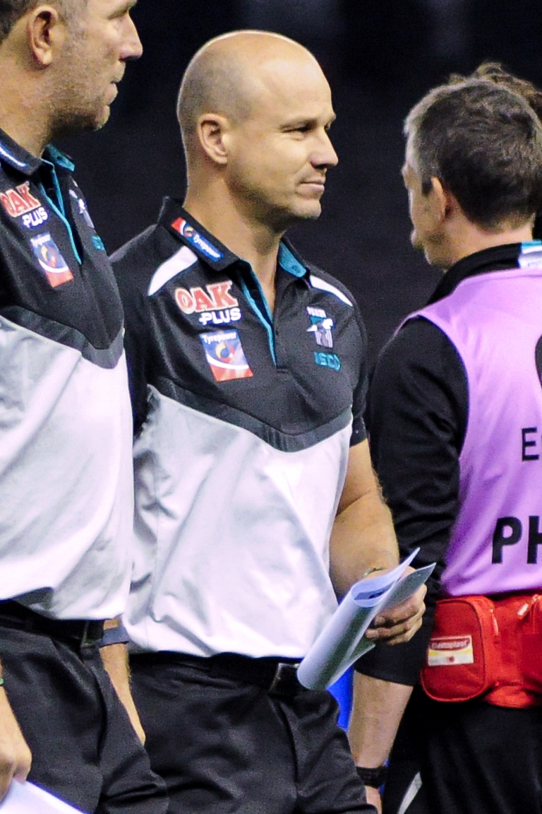 Matthew Nicks during the AFL round six match between North Melbourne and Port Adelaide on Saturday, 28 April 2018 at Etihad Stadium in Melbourne, Victoria.